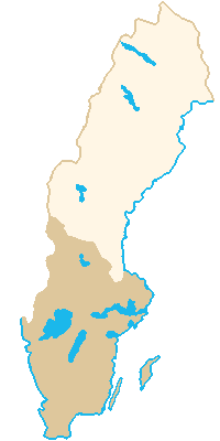 Map of "Söderland", the part of Sweden that is not Norrland.